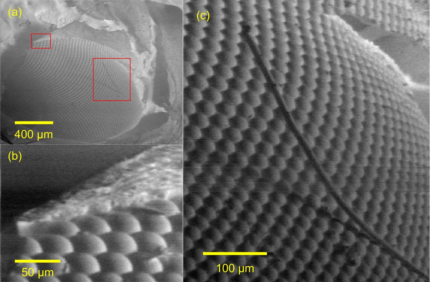 SHeM images of a fly compound eye. All images were post processed by subtracting the median height difference between the rows so that the detector instabilities are not visible. (a) Large scale SHeM image of the entire eye with the red boxes indicating where the other two images are obtained. The image consists of 380 x 300 pixels, each with a size of 5 µm, that were measured with an initial pause of 0.5 s and a dwell time of 0.5 s at every point. (b) A high resolution image of the edge of the eye. The helium signal is highest when the surface normal points towards the detector. The image consists of 333 x 250 pixels, each with a size of 600 nm, that were measured with an initial pause of 0.5 s and a dwell time of 0.5 s at every point. (c) A composite image of the eye with a contaminant that creates a mask on the surface of the eye. Due to issues with the detector, three images have been combined together to produce a complete image. The image consists of 385 x 440 pixels, each with a size of 1 µm, that were measured with an initial pause of 0.5 s and a dwell time of 0.5 s at every point.